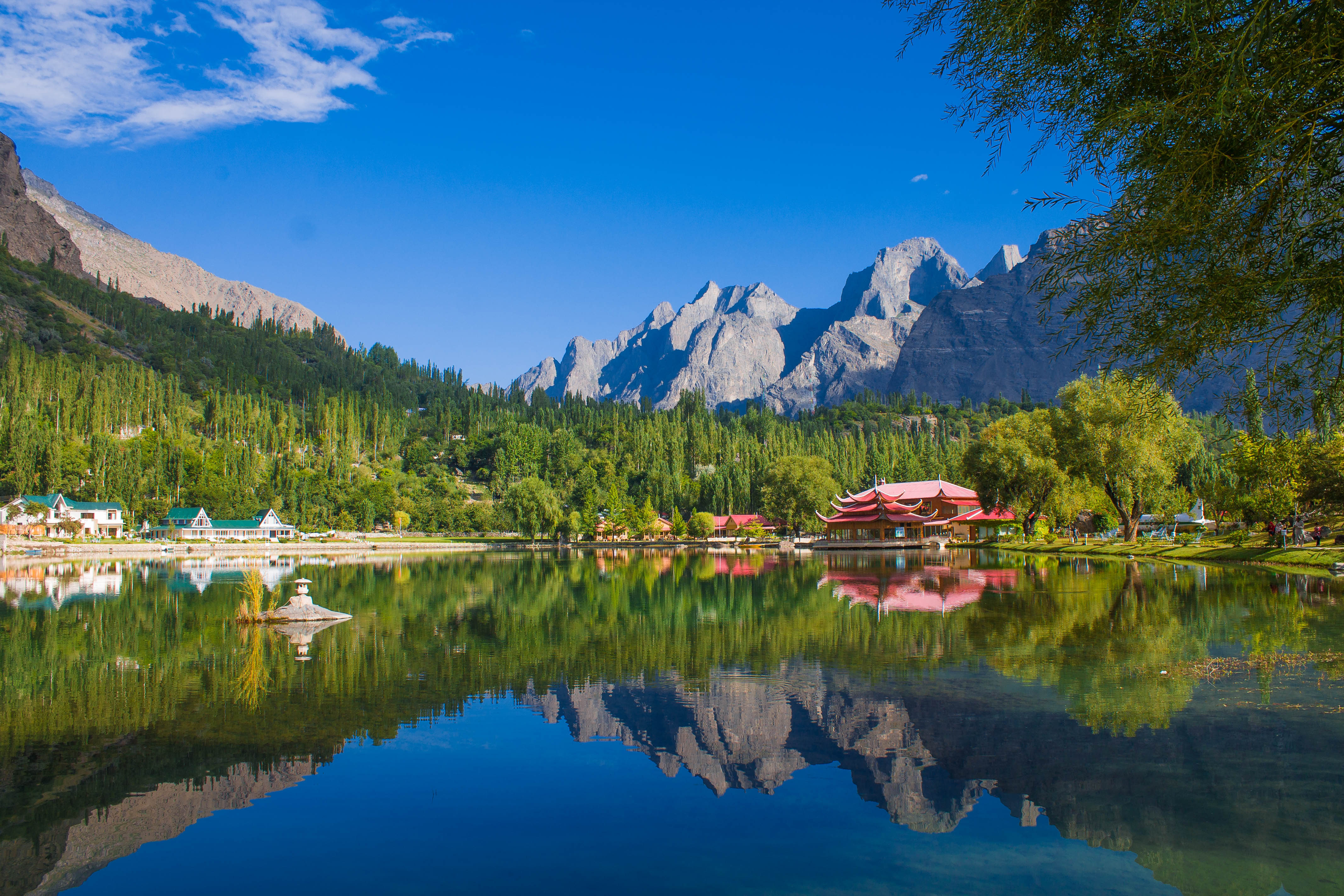 Shangrila ,lower kachura lake, skardu